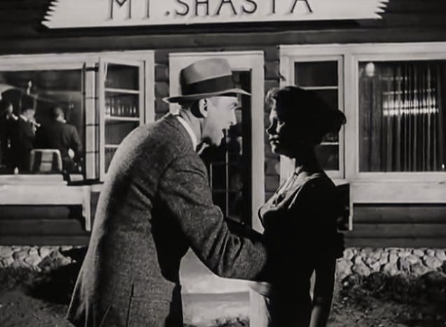 James Stewart and Lee Remick in Anatomy of a Murder (1959) - trailer (cropped screenshot)